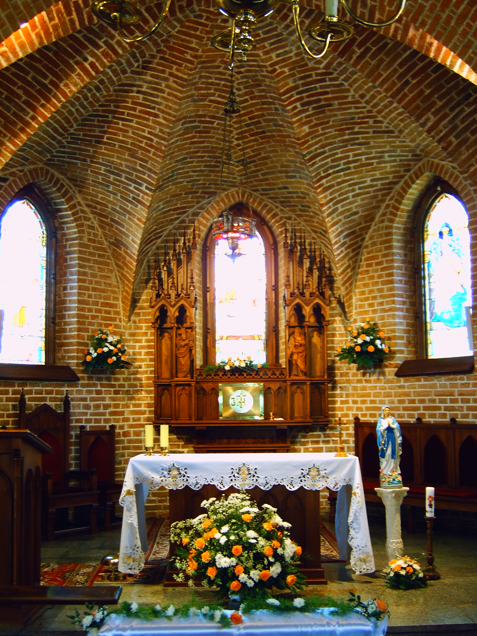 Poland, Mielno, church, presbytery